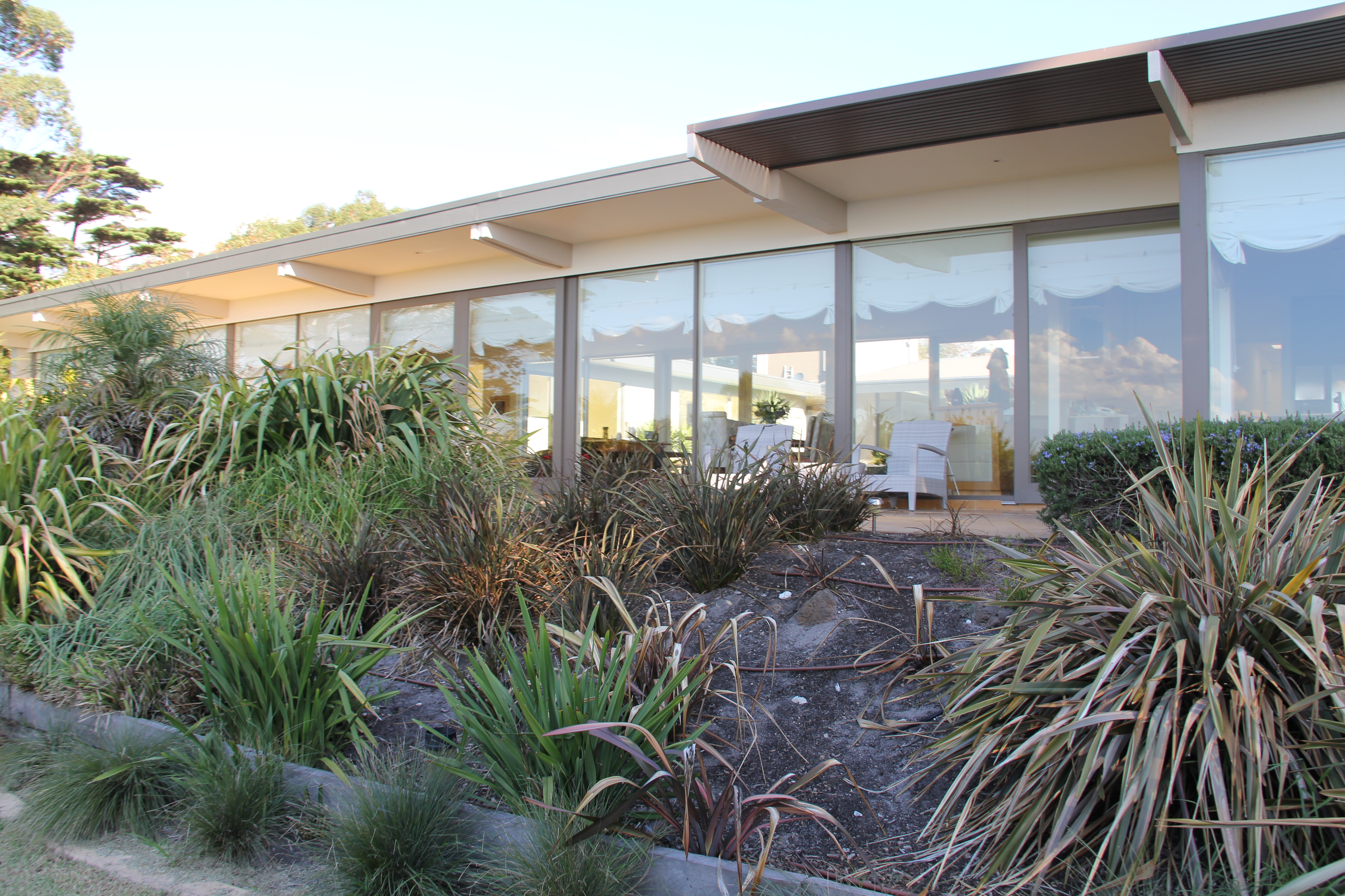 image of simon house